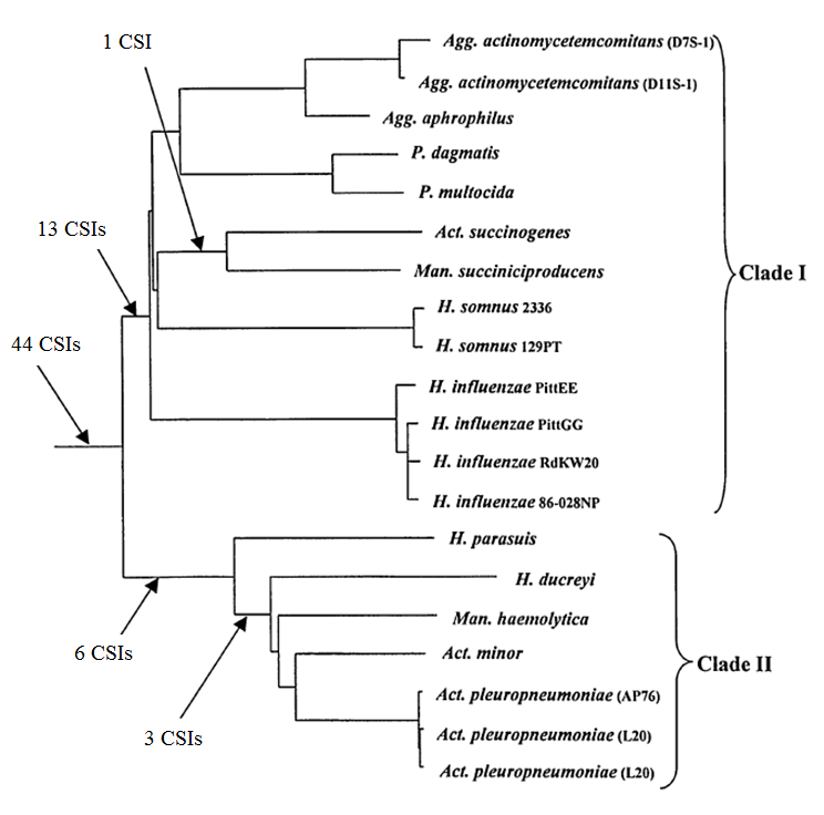 Phylogenetic tree based on concatenated protein sequences, showing the relation ship of Pastureles. CSIs supporting the branching order are indicated.